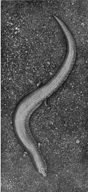 Mochlus sundevallii, an African skink. This is a male, AMNH 11225, of length 179 mm (Schmidt, 1919, p. 612).